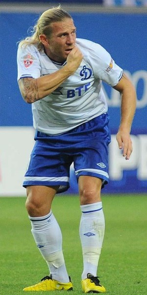 Andriy Voronin